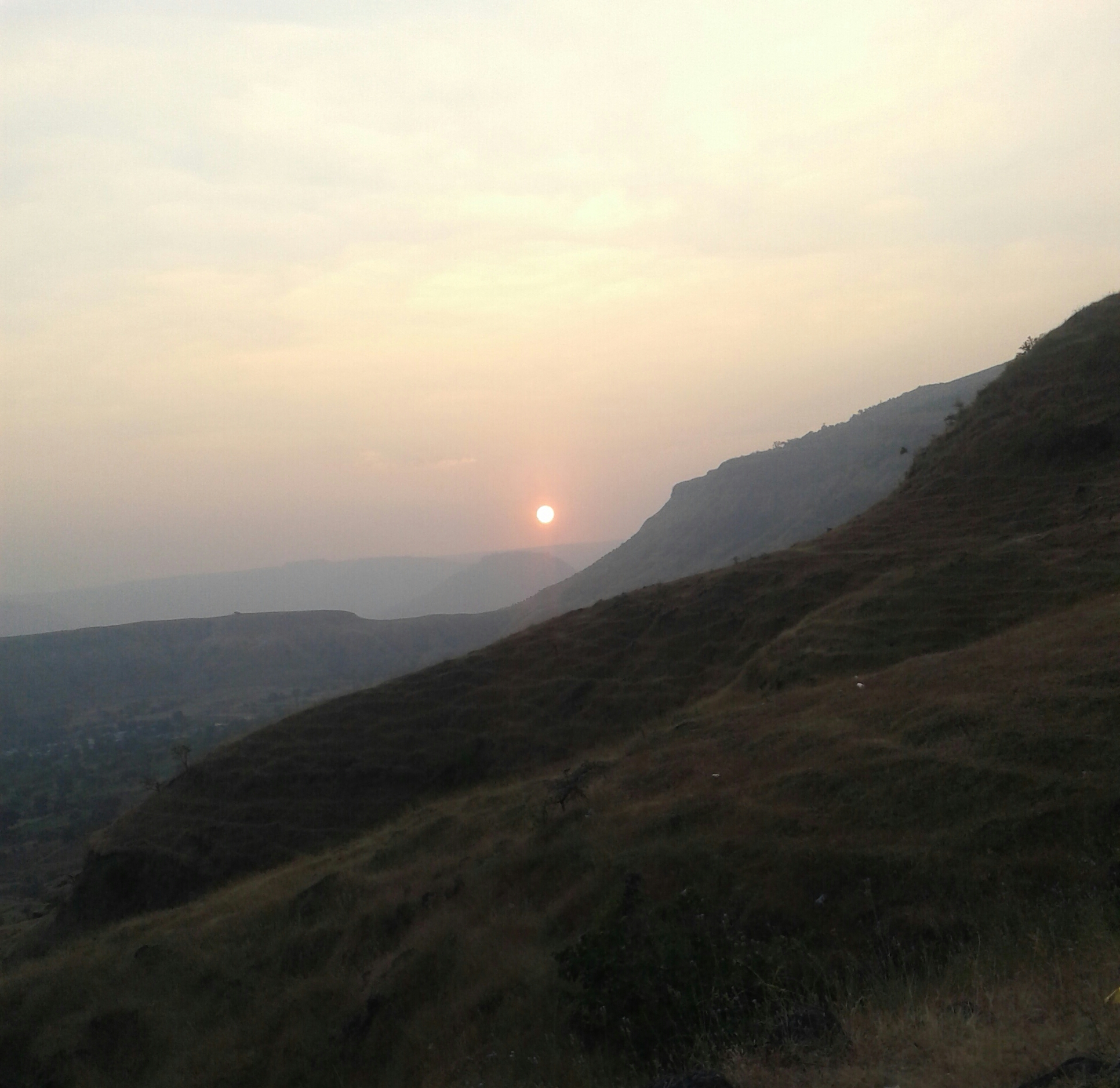 light